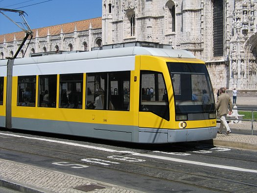 Tram. Lisbon, Portugal.